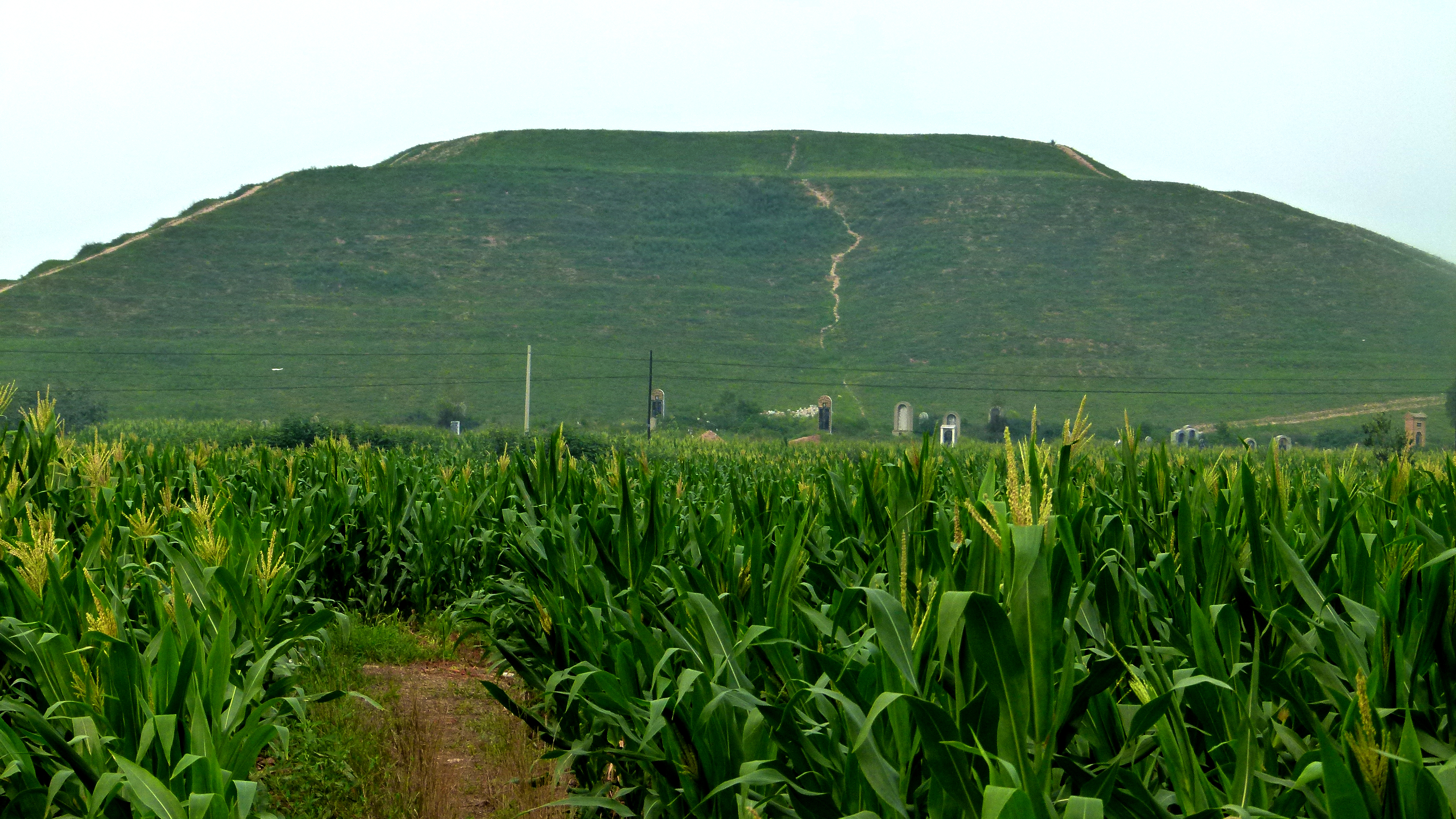 Kangling near Airport Xi'an (China)